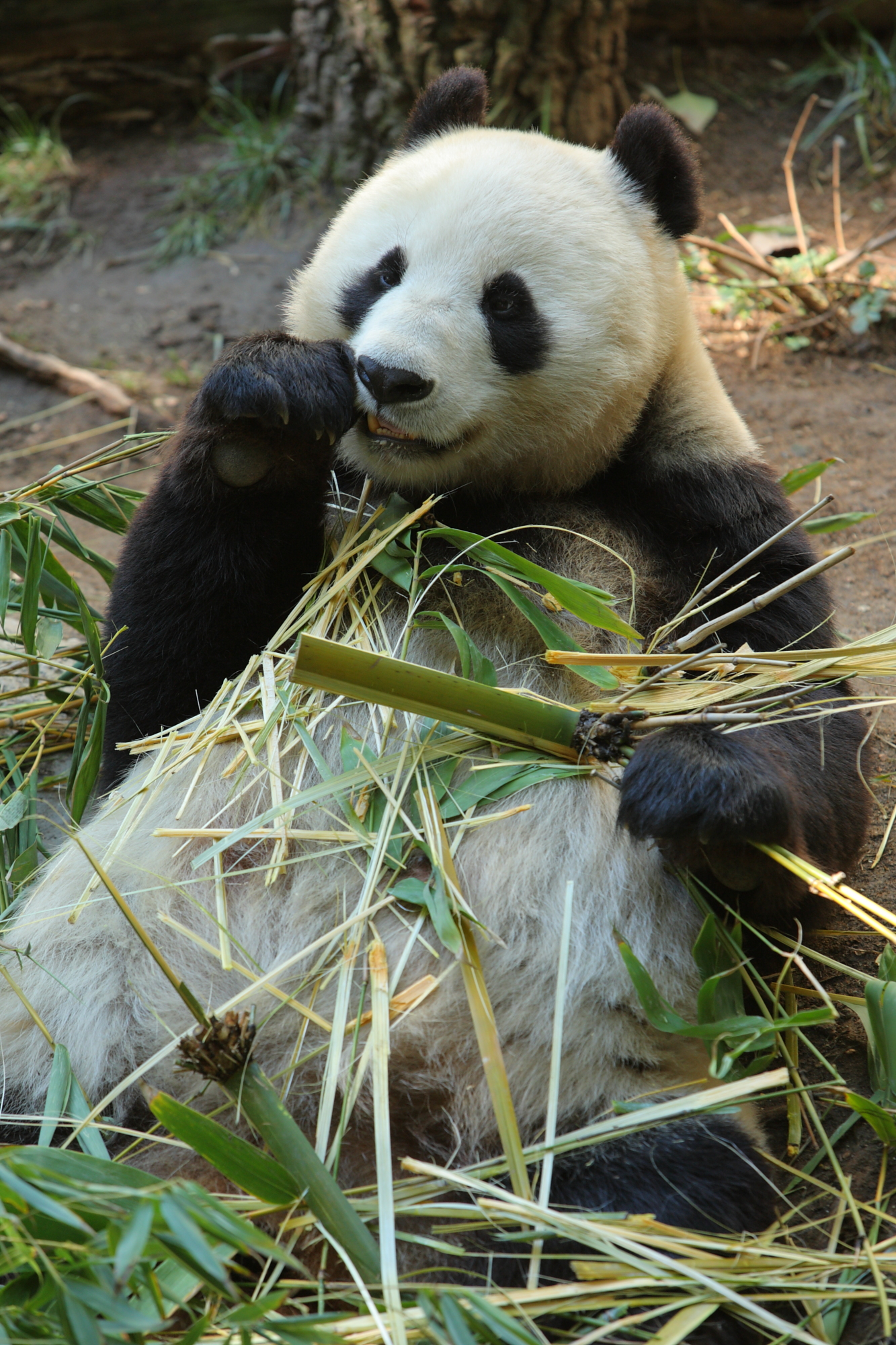 Bai Yun, a female Giant Panda at San Diego Zoo, California